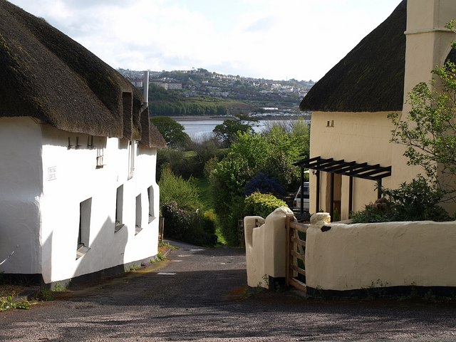 Cottages at Teignharvey Thatched cottages on a corner of Shaldon Road, either side of a track leading down to the Teign estuary.